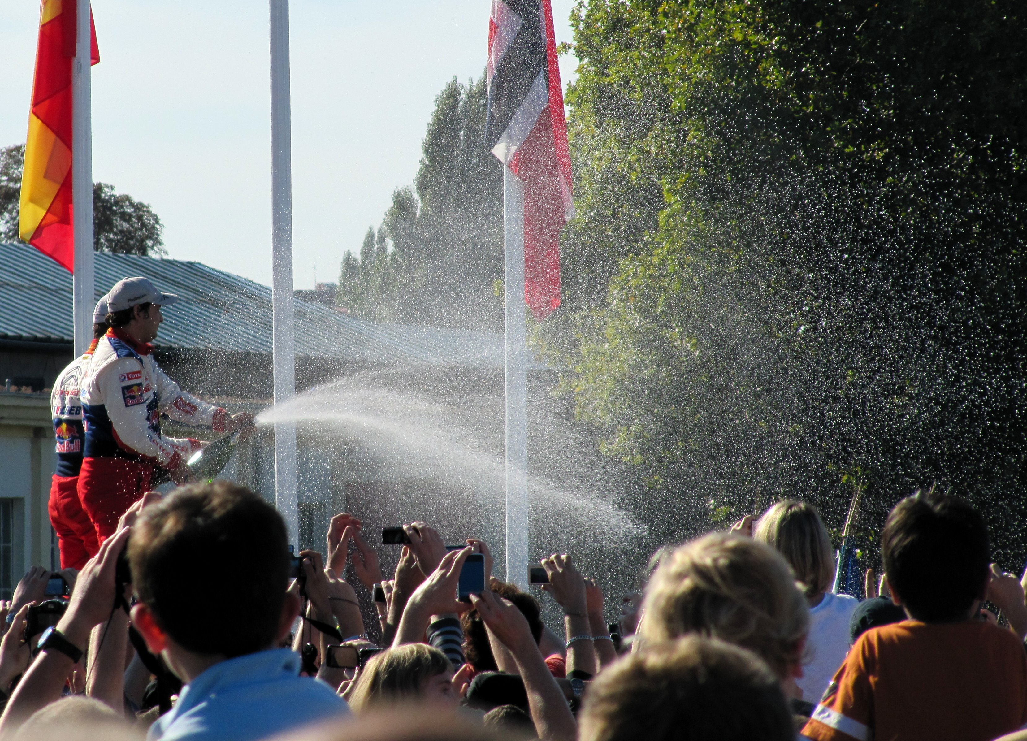 Rally Alsace France, World Title 2010